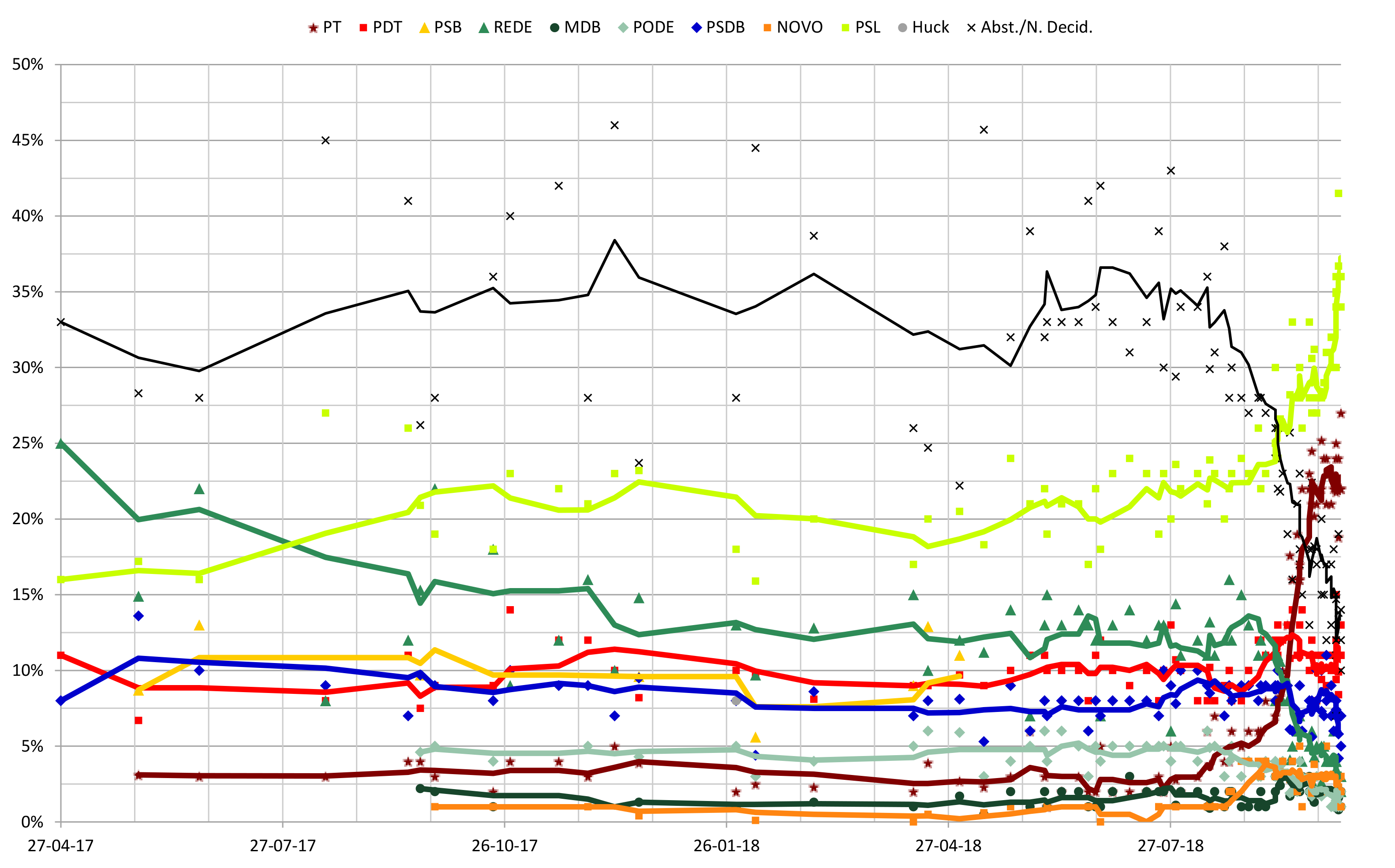 Graph showing 5 poll average trend lines of Brazilian opinion polls from April 2017 to the most recent one without Lula. Each line corresponds to a political party. Based on data at